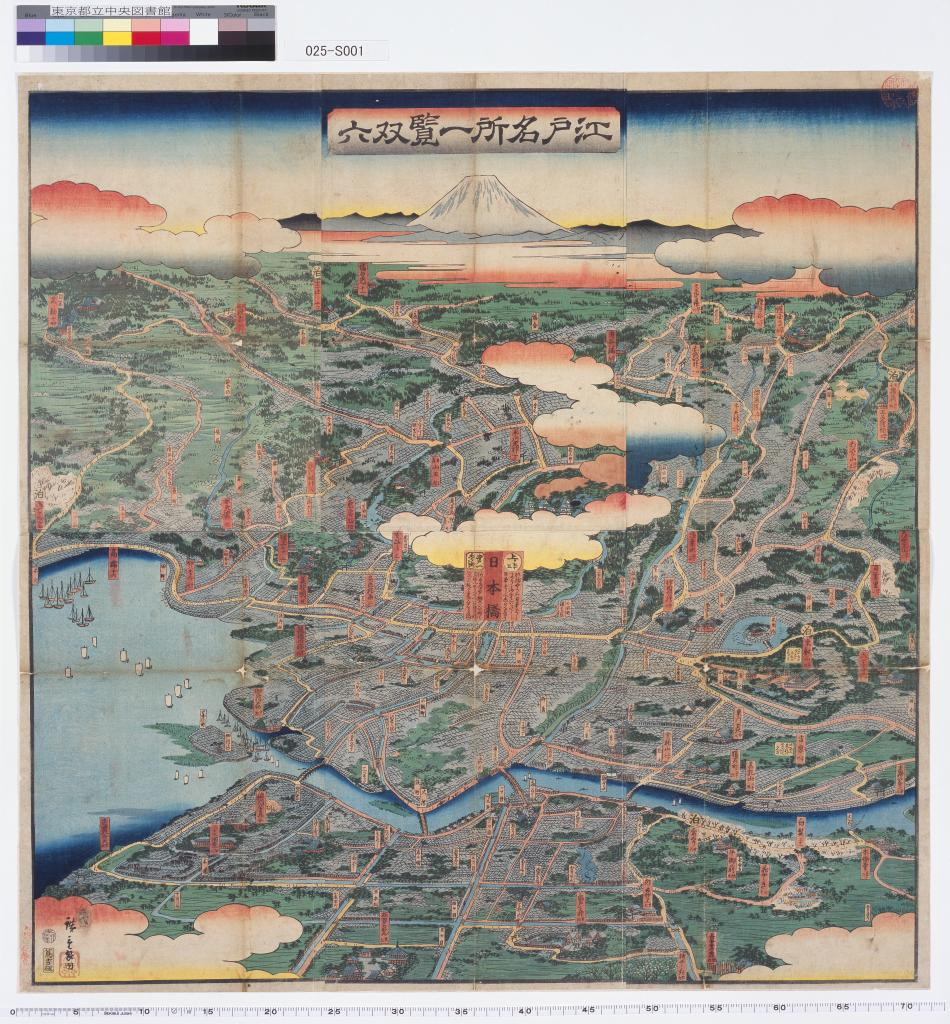 A view of Yamanote (above), Nihonbashi (center) and Shitamachi (below) by Utagawa Hiroshige. Nihonbashi is at the center of the map. （Sugoroku (a type of board game) Showing Famous Places around Edo）This is a sugoroku (a type of board game) showing a bird's-eye view of famous places around Edo. Starting from Nihonbashi, players passed through the 54 famous places of Edo, before returning to Nihonbashi which was also the goal. The picture shows not only the names of famous places, which formed the squares of the board game, but also the names of other famous places and towns.」